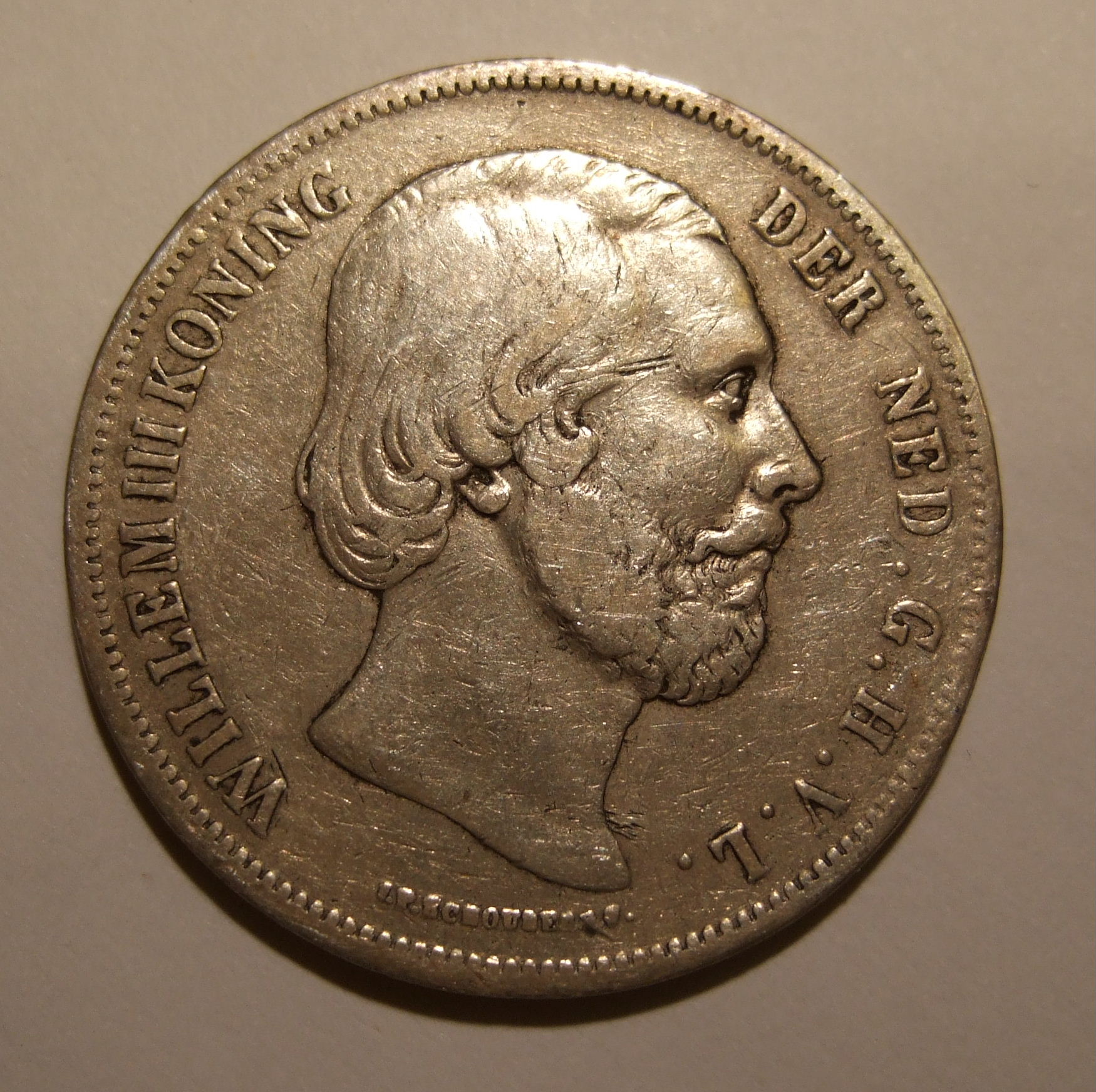 NETHERLANDS, WILLEM III 1852 2 1/2 GUILDERS